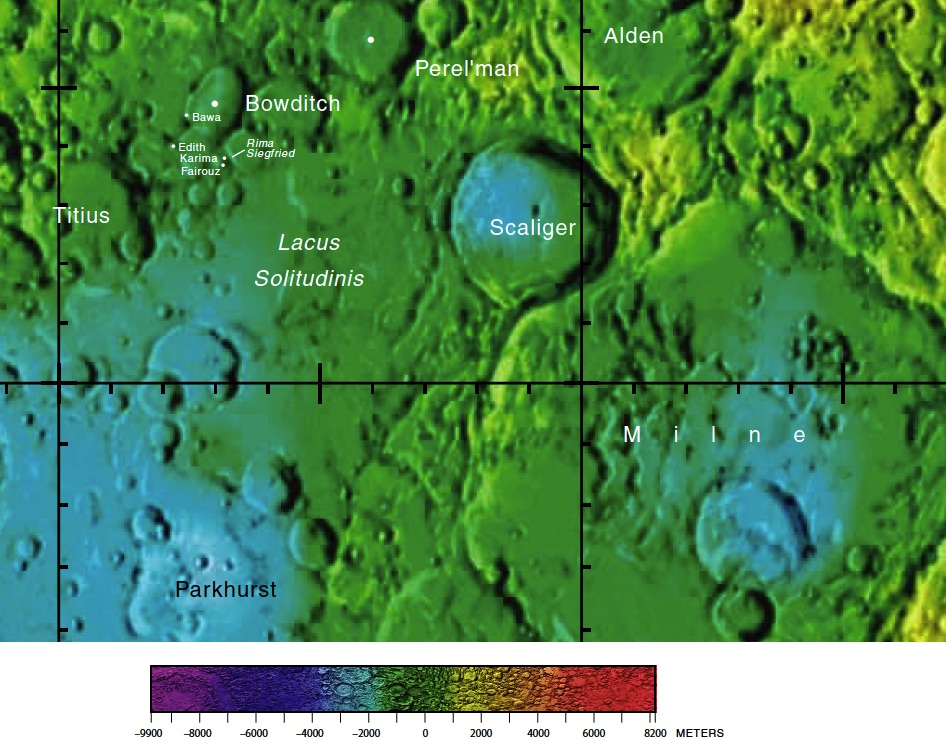 Part of the USGS far side lunar chart used for the presentation.